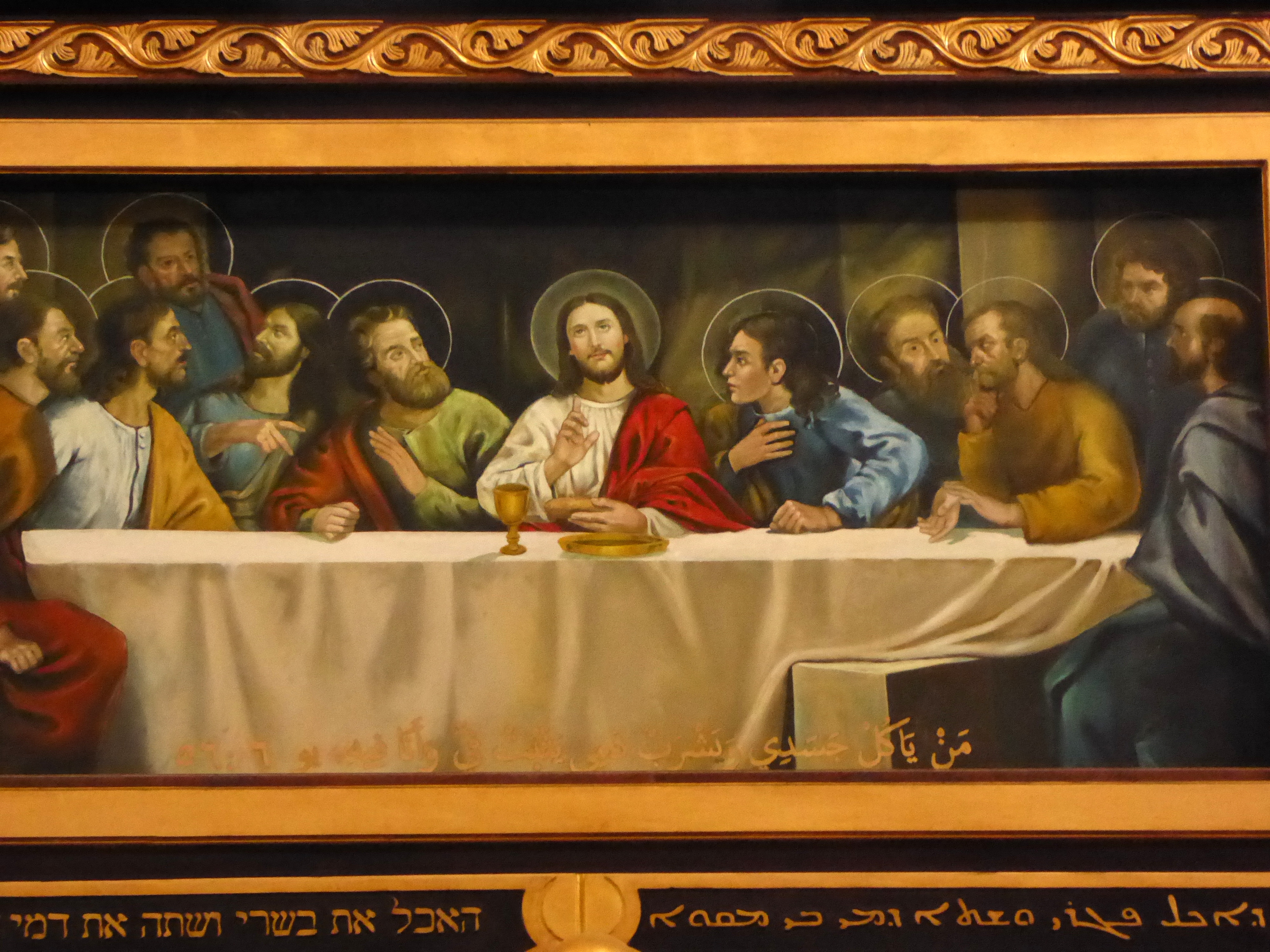 Last supper: Fresco at Coptic Charch of the heavenly, Sharm el Sheikh